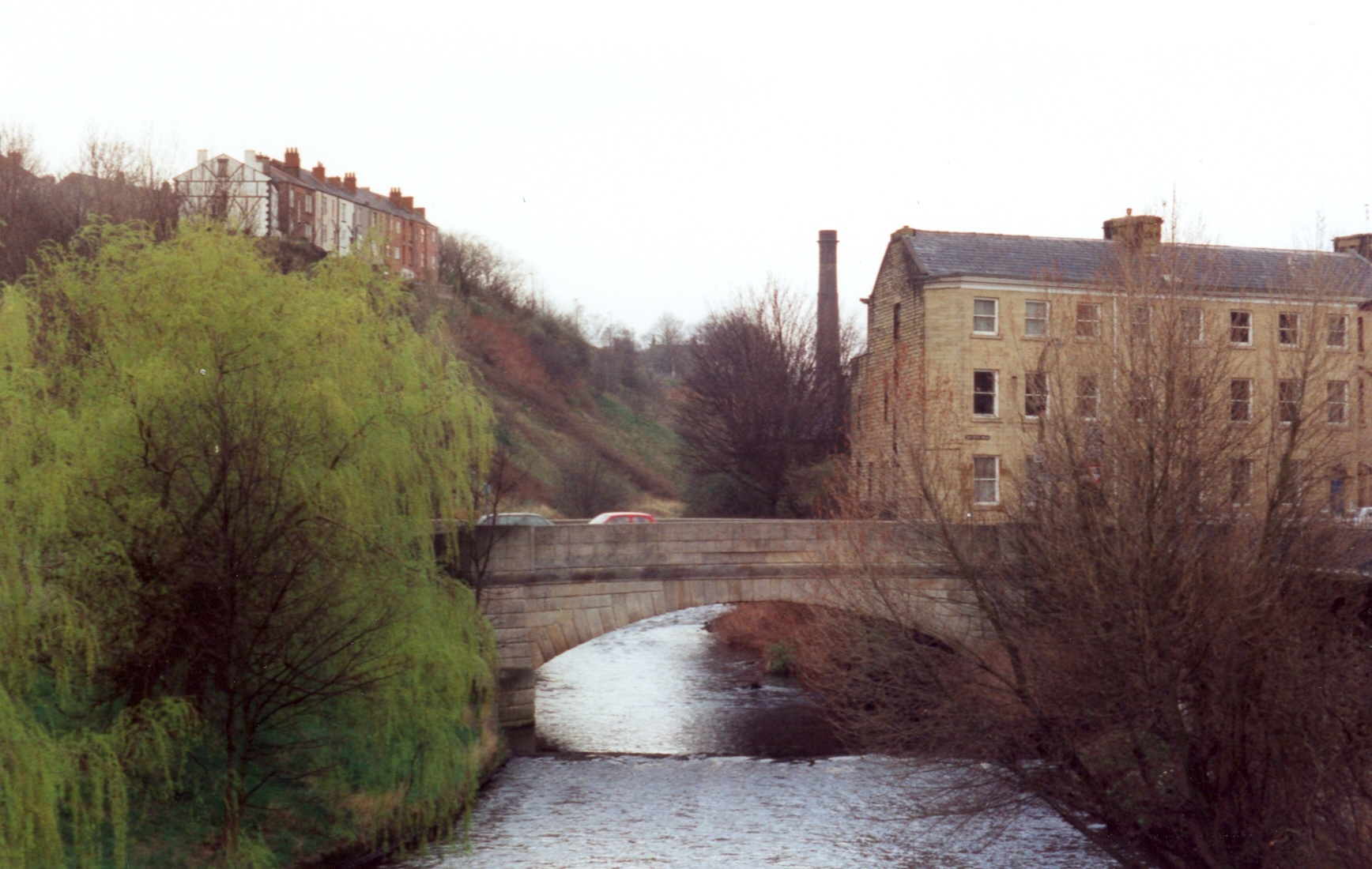 A view of Stalybridge, Cheshire, England looking up the River Tame as it flows under Staley Bridge. Taken by the uploader in 1997. Released to the public domain. Note damage to the side of the bridge where a heavy goods vehicle struck the bridge wall.